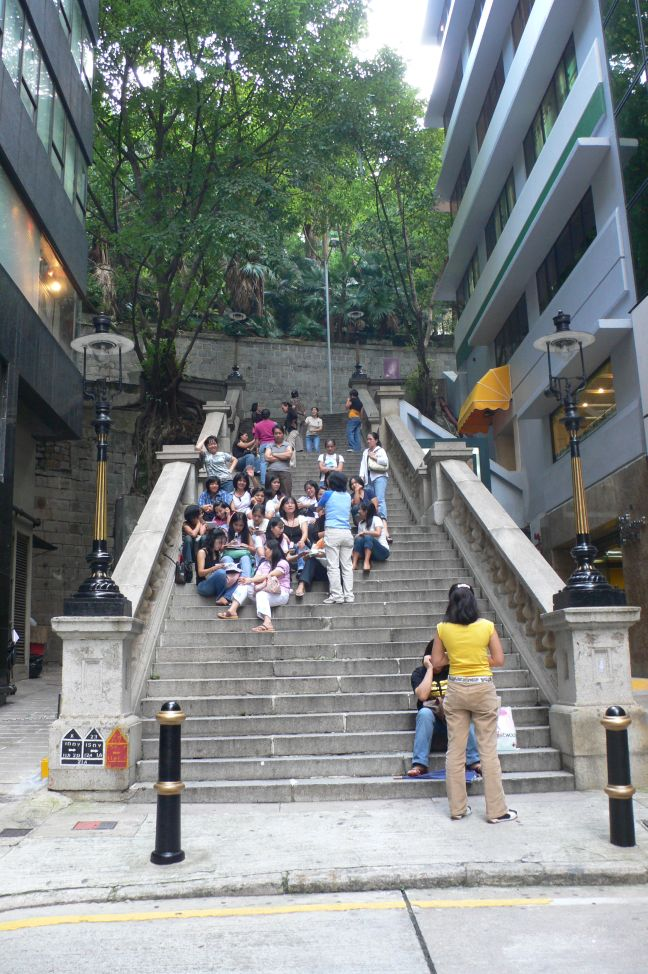 Duddell Street Steps